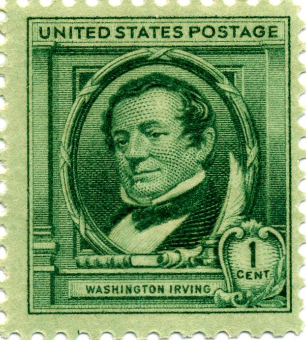 Washington Irving, author, commemorated in US postage stamp of 1940.